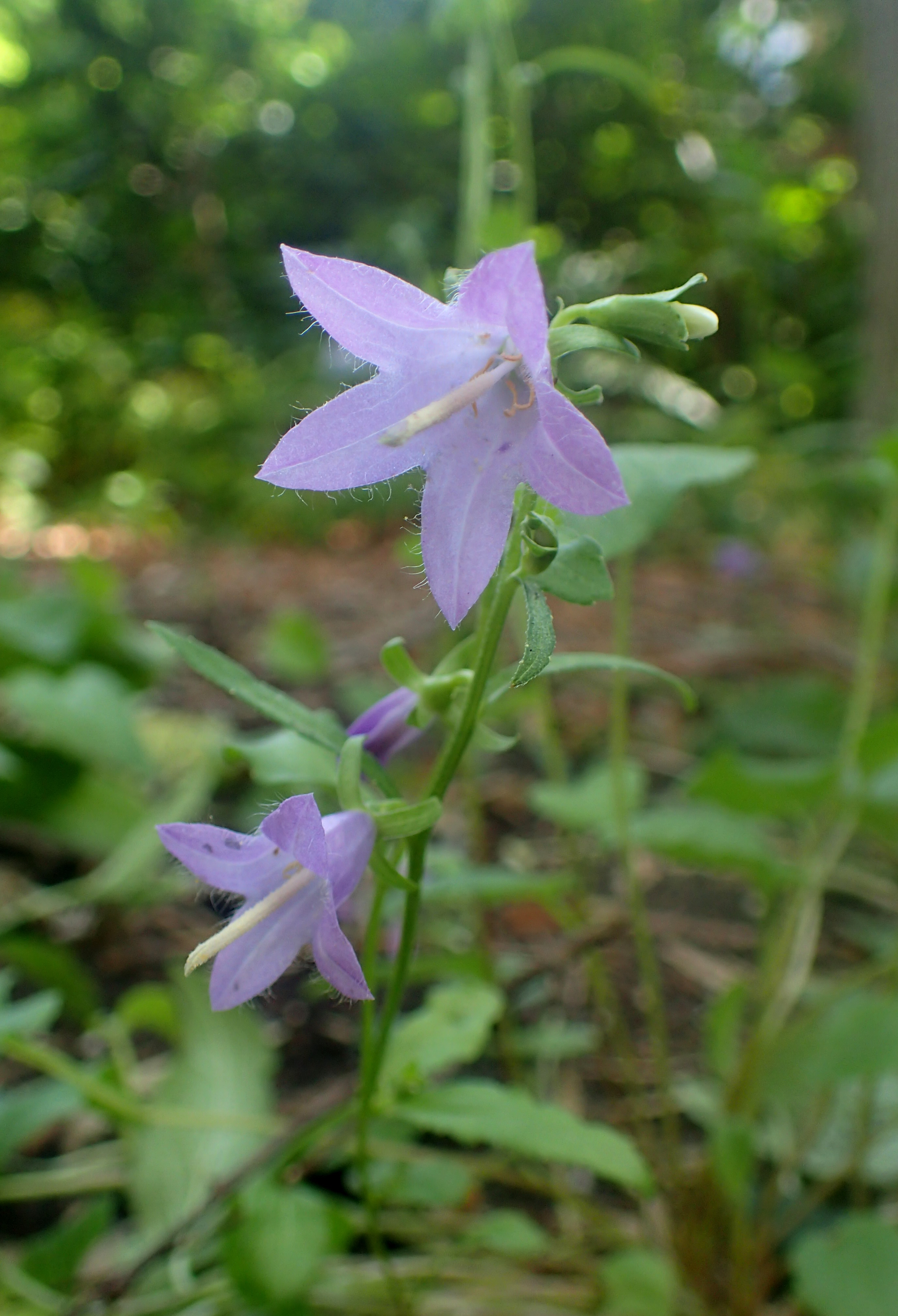 Adenophora stricta in the Missouri Botanical Garden, St. Louis